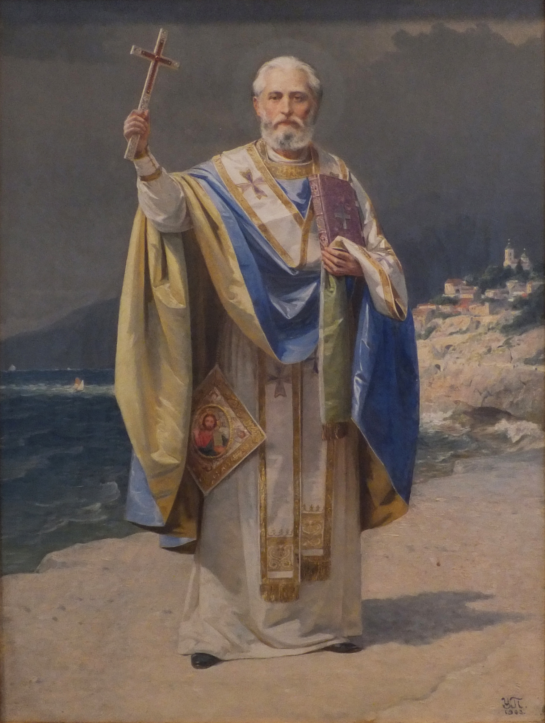 Sveti Nikola (1903), by Uroš Predić